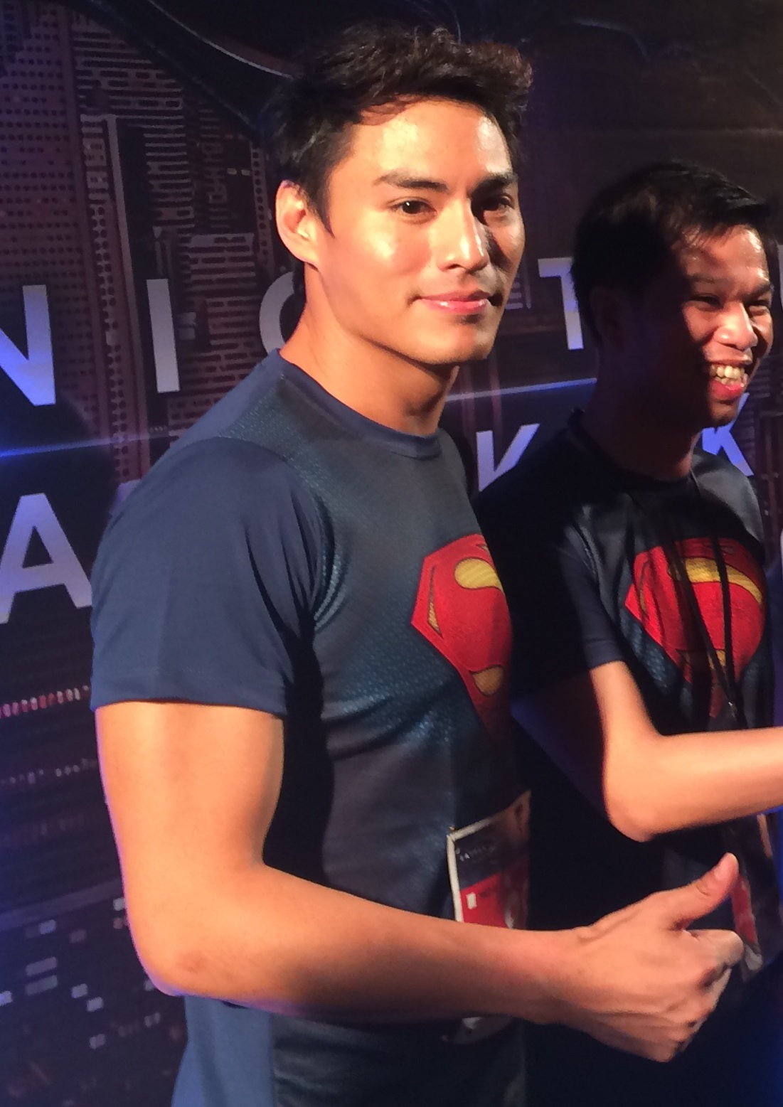 Nawin Tar at Batman V Superman Dawn of Justice Midnight Run Bangkok.